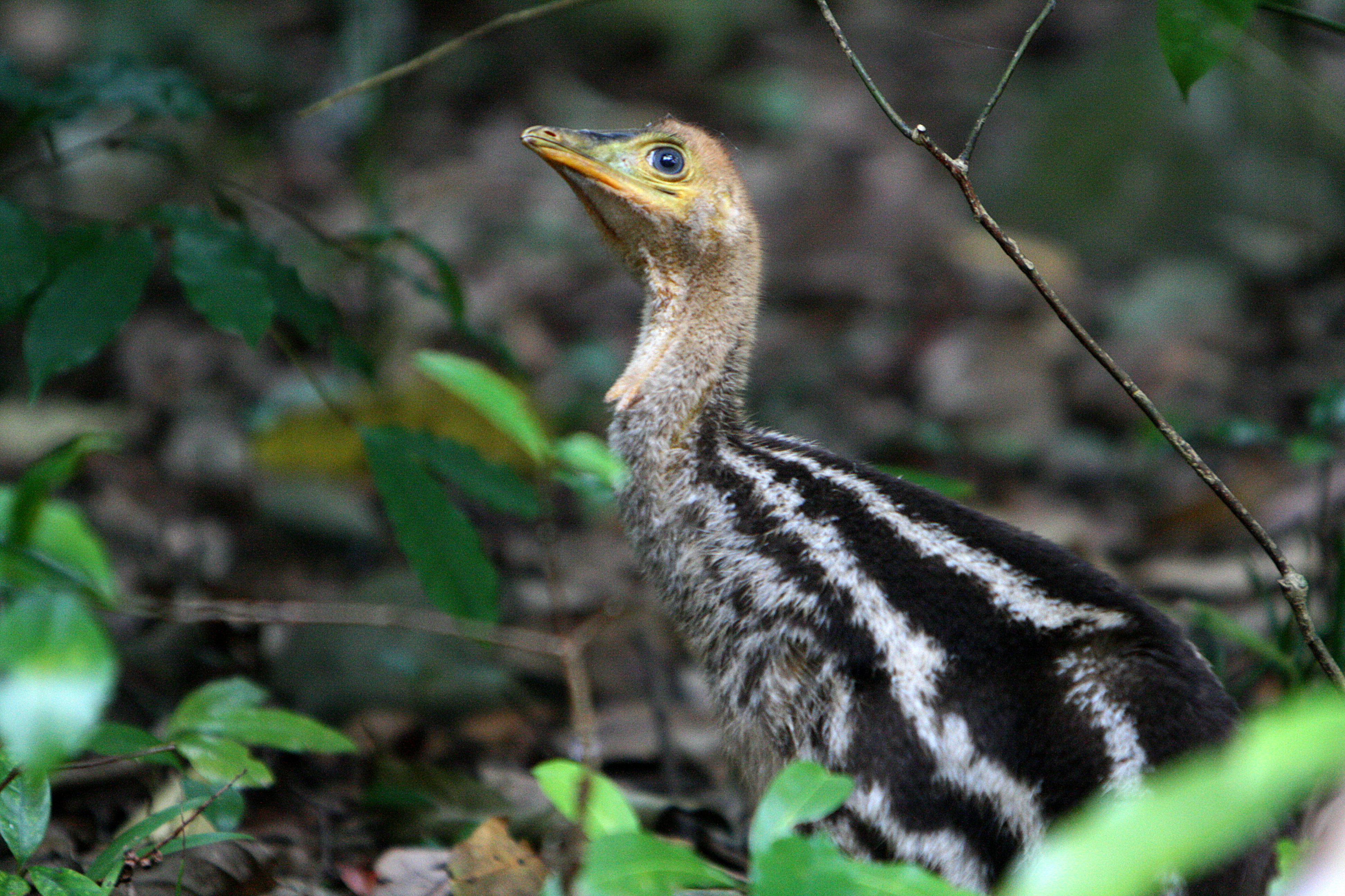 A chick Southern Cassowary in Emmagen Creek, Queensland, Australia.